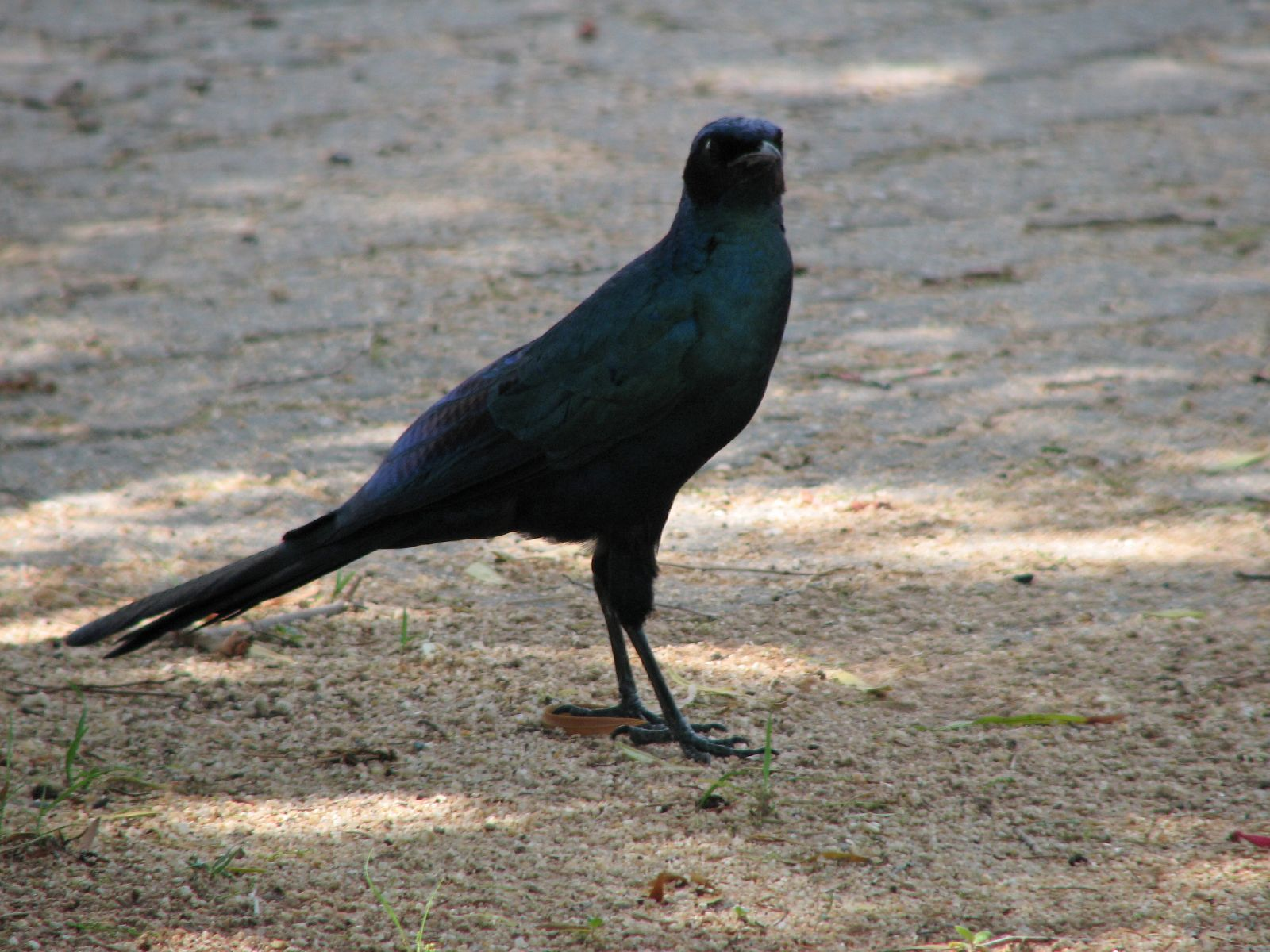 Burchell's Starling Lamprotornis australis, Namibia